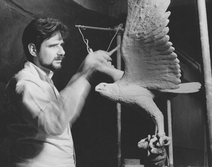 Sculptor Joel Rudnick modeling the falcon for The Falconer when he worked for the New York City Parks Department in the late 60s.